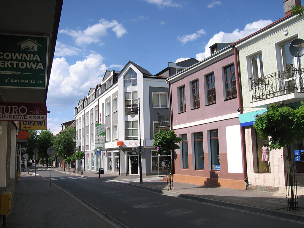 City of Ostroleka (Poland), Kilinskiego Street.